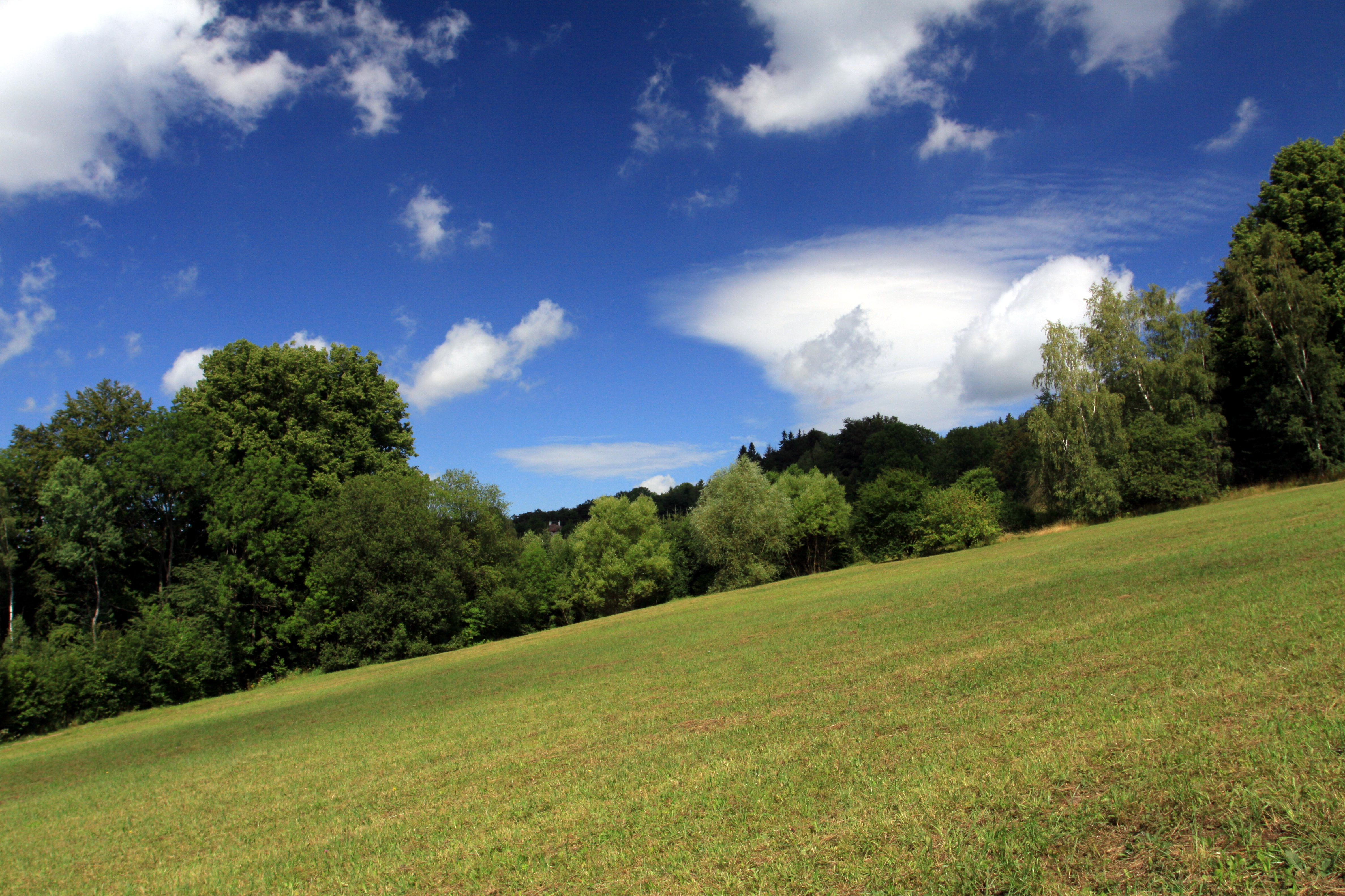 Natural monument Žaltman located northern from the village Malé Svatoňovice in the former Trutnov District., Czech Republic